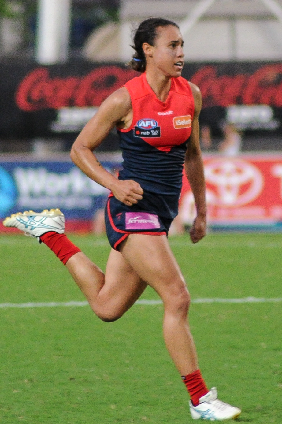 Aliesha Newman running to the bench during the AFL Women's round six match between Adelaide and Melbourne on 11 March 2017 at TIO Stadium in Darwin, Northern Territory